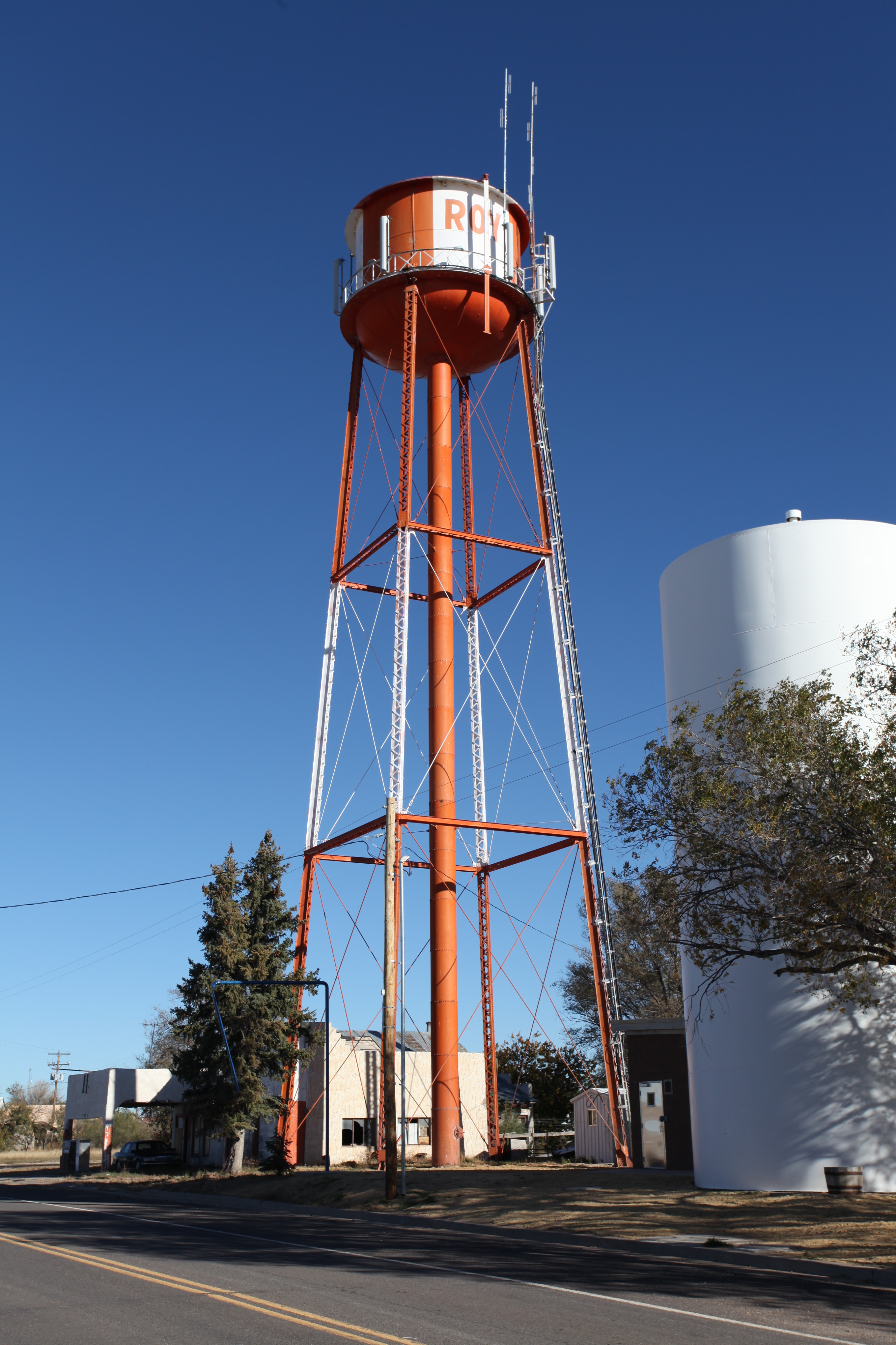 Water tower, Roy, New Mexico.